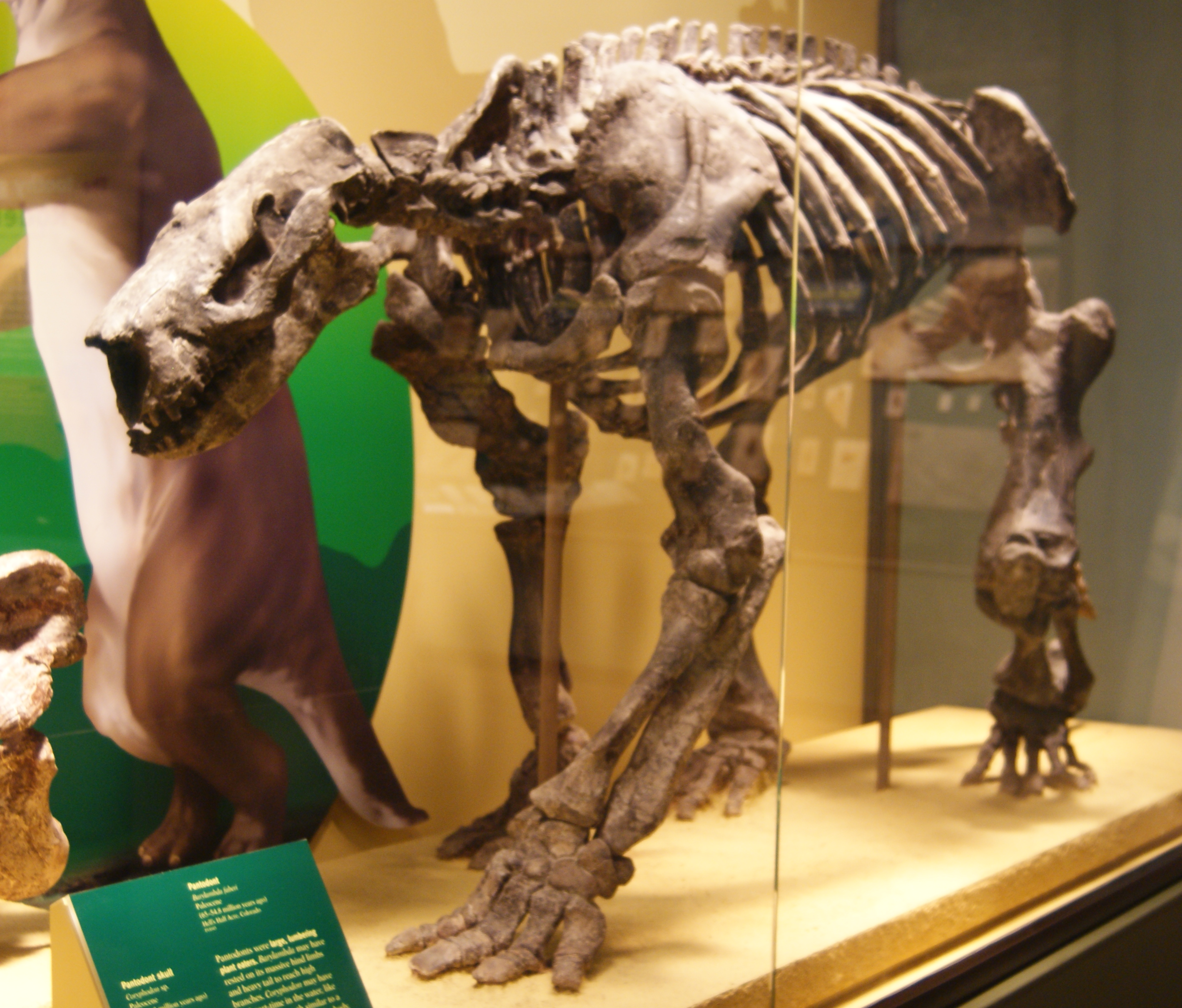 Barylambda faberi, a Paleocene pantodont in the Evolving Planet Exhibit at the Field Museum, Chicago, IL